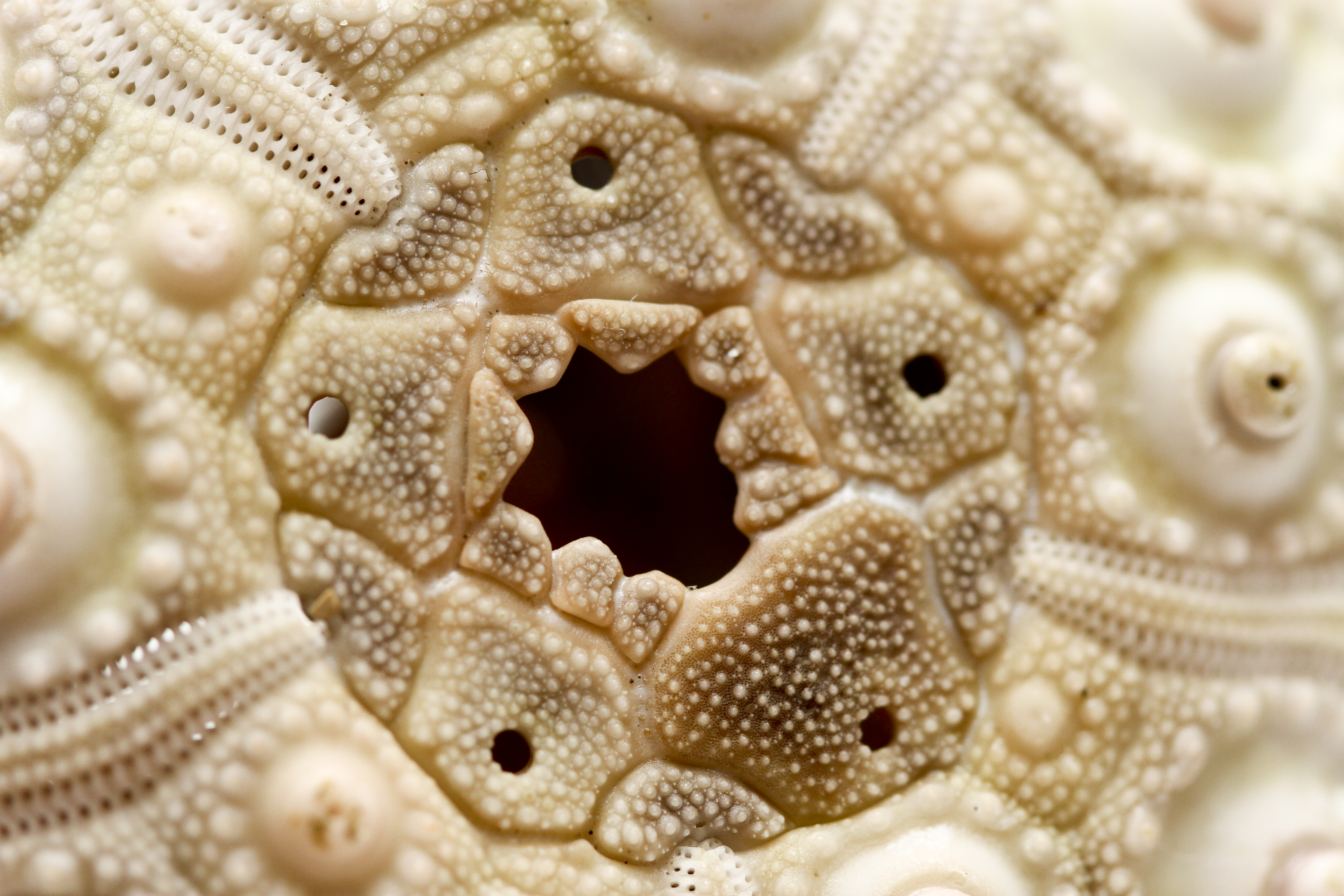 Day 312 -365 beautiful Sea Urchin